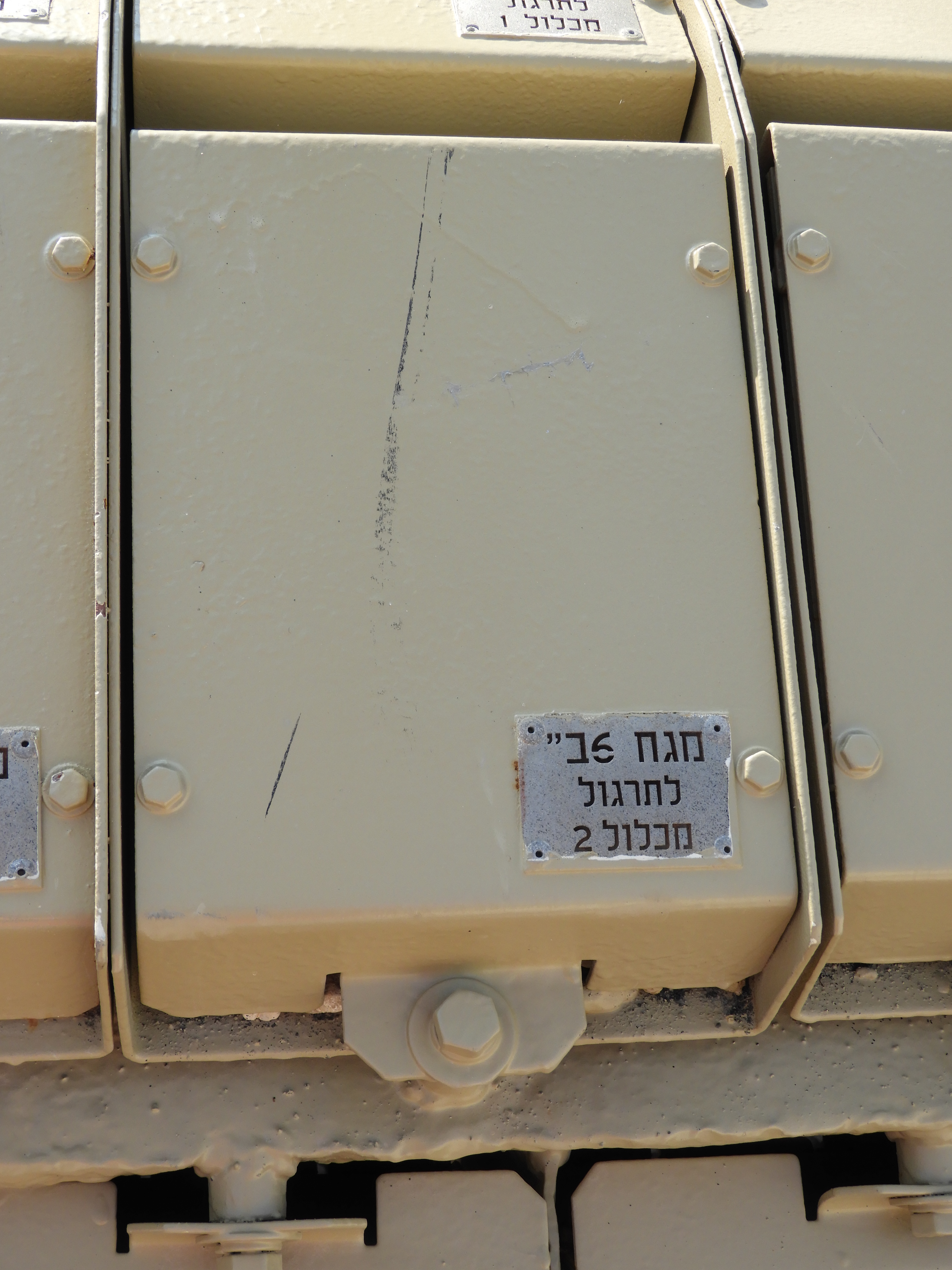 The module of Blazer ERA